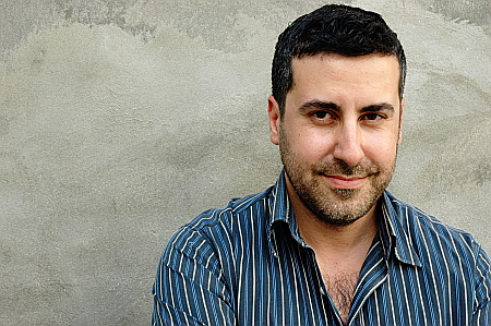 Dyab Abou Jahjah